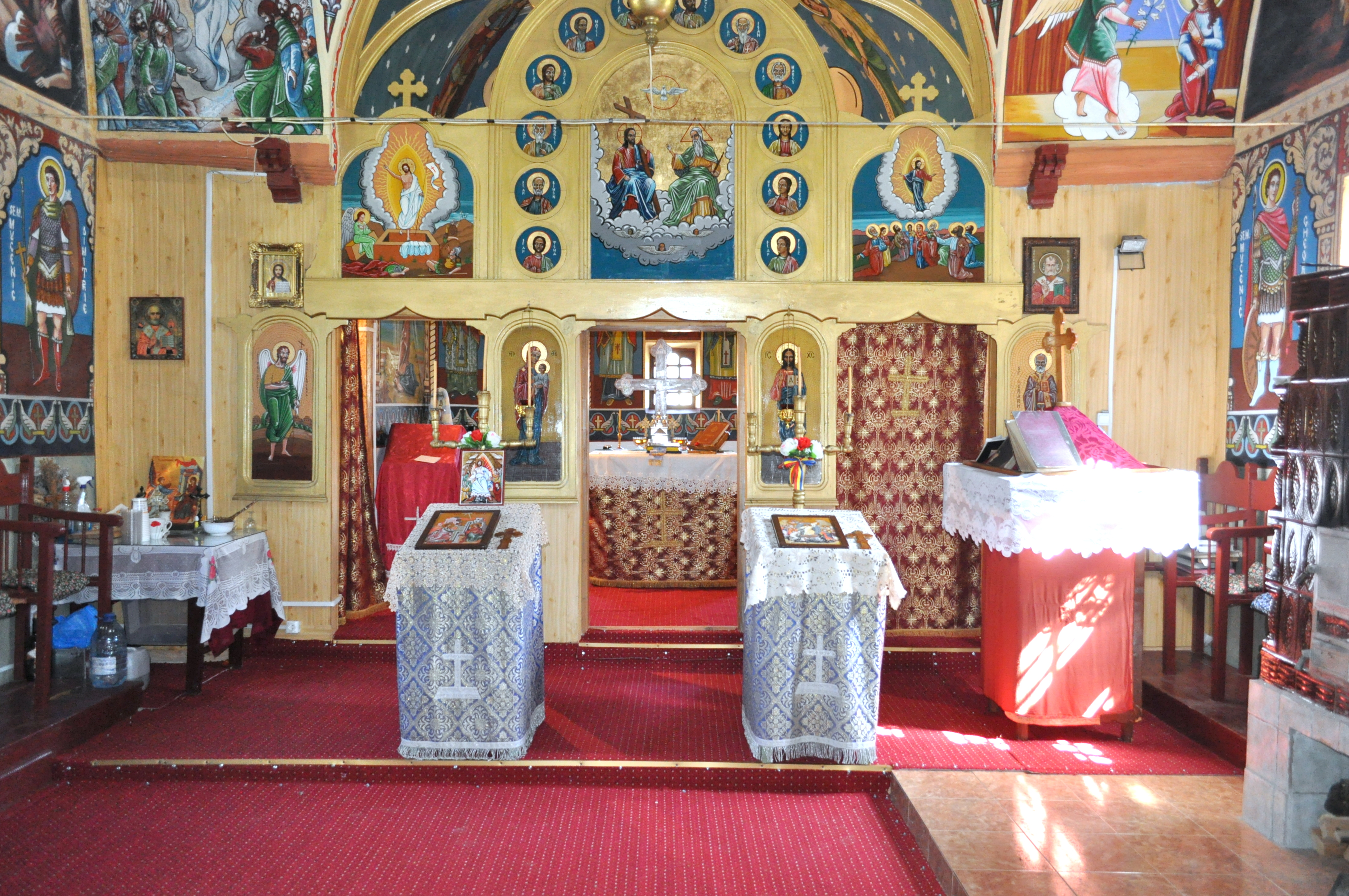 Saint Nicholas wooden church in Groș, Hunedoara county, Romania